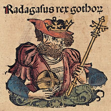 Illustration from the Nuremberg Chronicle